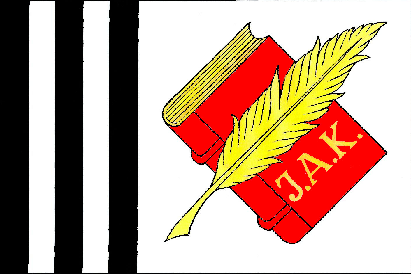 Municipal flag of Nivnice village, Uherské Hradiště District, Czech Republic.